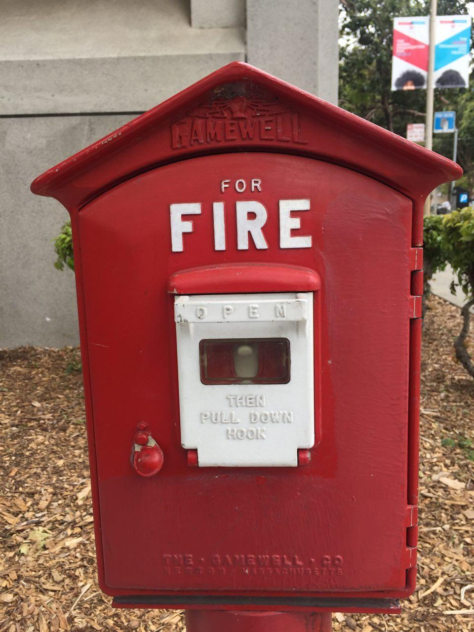 Fire alarm box in San Francisco